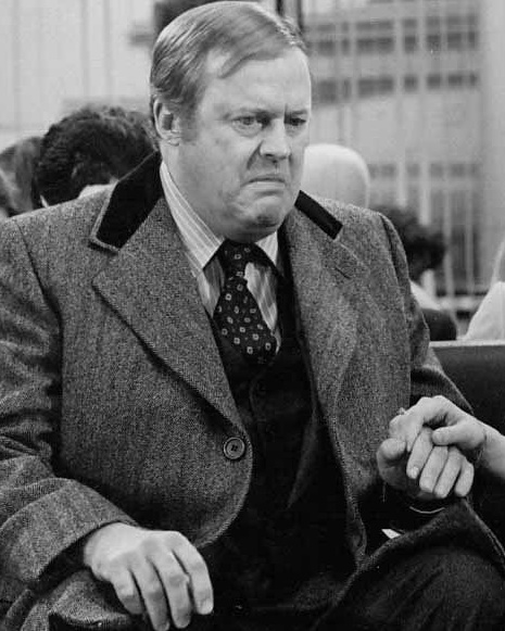 Franklin Cover and Judy Landers on The Jeffersons